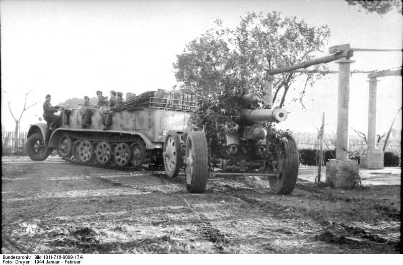 In fact, mittlerer Zugkraftwagen 8 t (Sd.Kfz. 7)